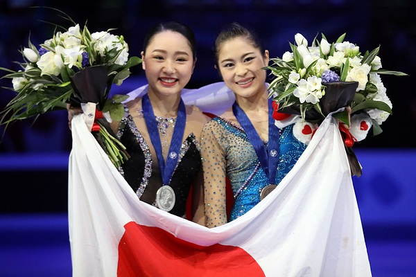 Photos – World Championships 2018 – Ladies (Medalists)